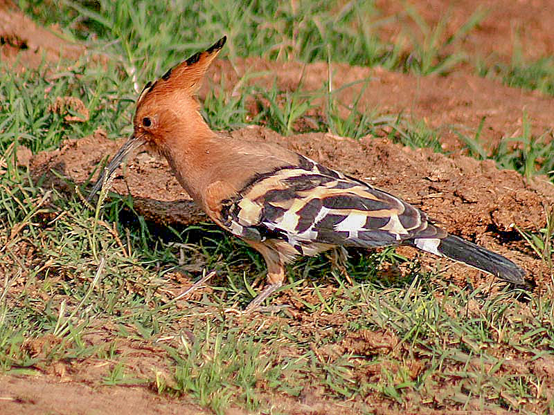 Common Hoopoe Upupa epops at/ near Hodal in Faridabad District of Haryana, India.